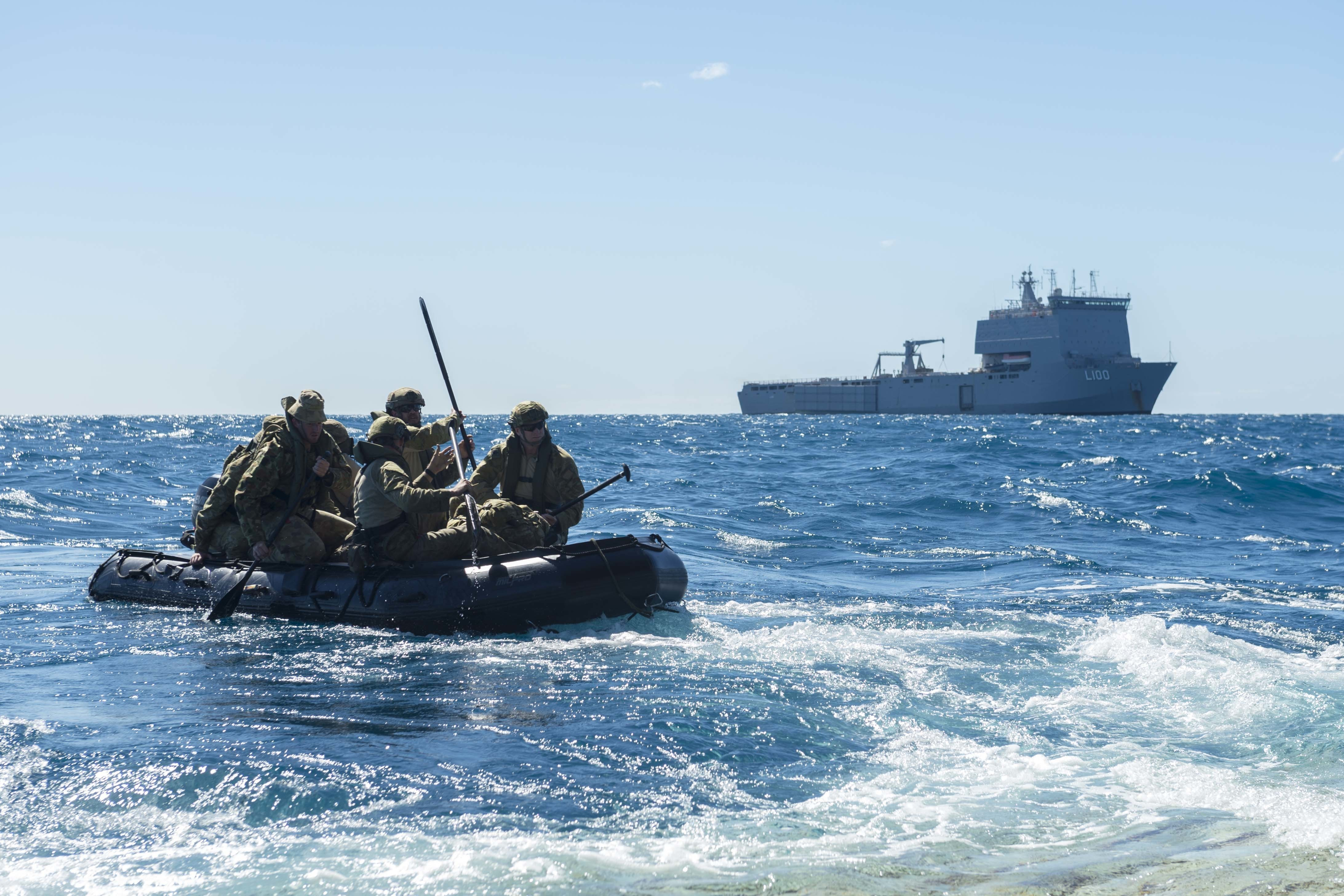 170720-N-ZL062-037 CORAL SEA (July 20, 2017) Soldiers assigned to 2nd Battalion, Royal Australian Regiment, depart the well deck of the amphibious transport dock USS Green Bay (LPD 20) in combat rubber raiding crafts while the Royal Australian Navy landing ship dock HMAS Choules (L100) sails in the distance during Talisman Saber 17. Talisman Saber is a biennial U.S.-Australia bilateral exercise held off the coast of Australia meant to achieve interoperability and strengthen the U.S.-Australia alliance. (U.S. Navy photo by Mass Communication Specialist 3rd Class Sarah Myers/Released)